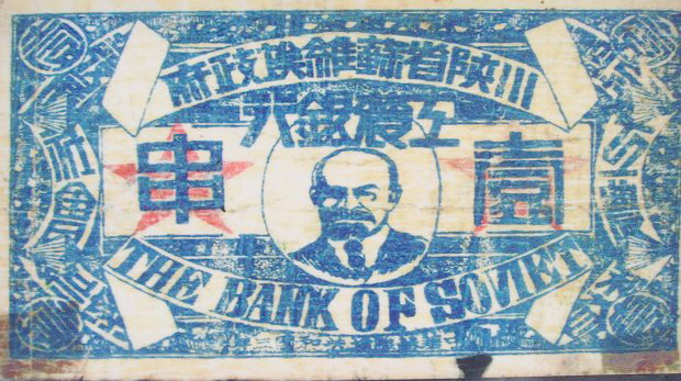 The Bank of Soviet bank note. 中华苏维埃国家银行纸币.